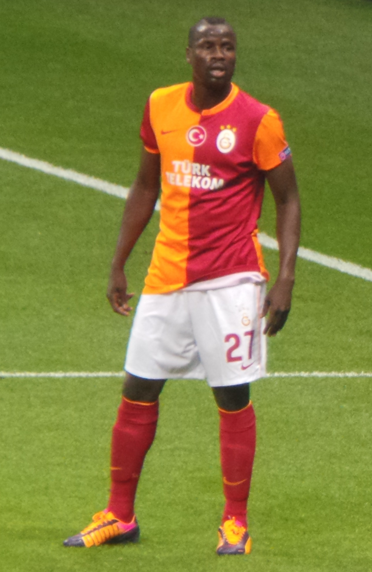 Emmanuel Eboué in 2013 against FC Copenhagen